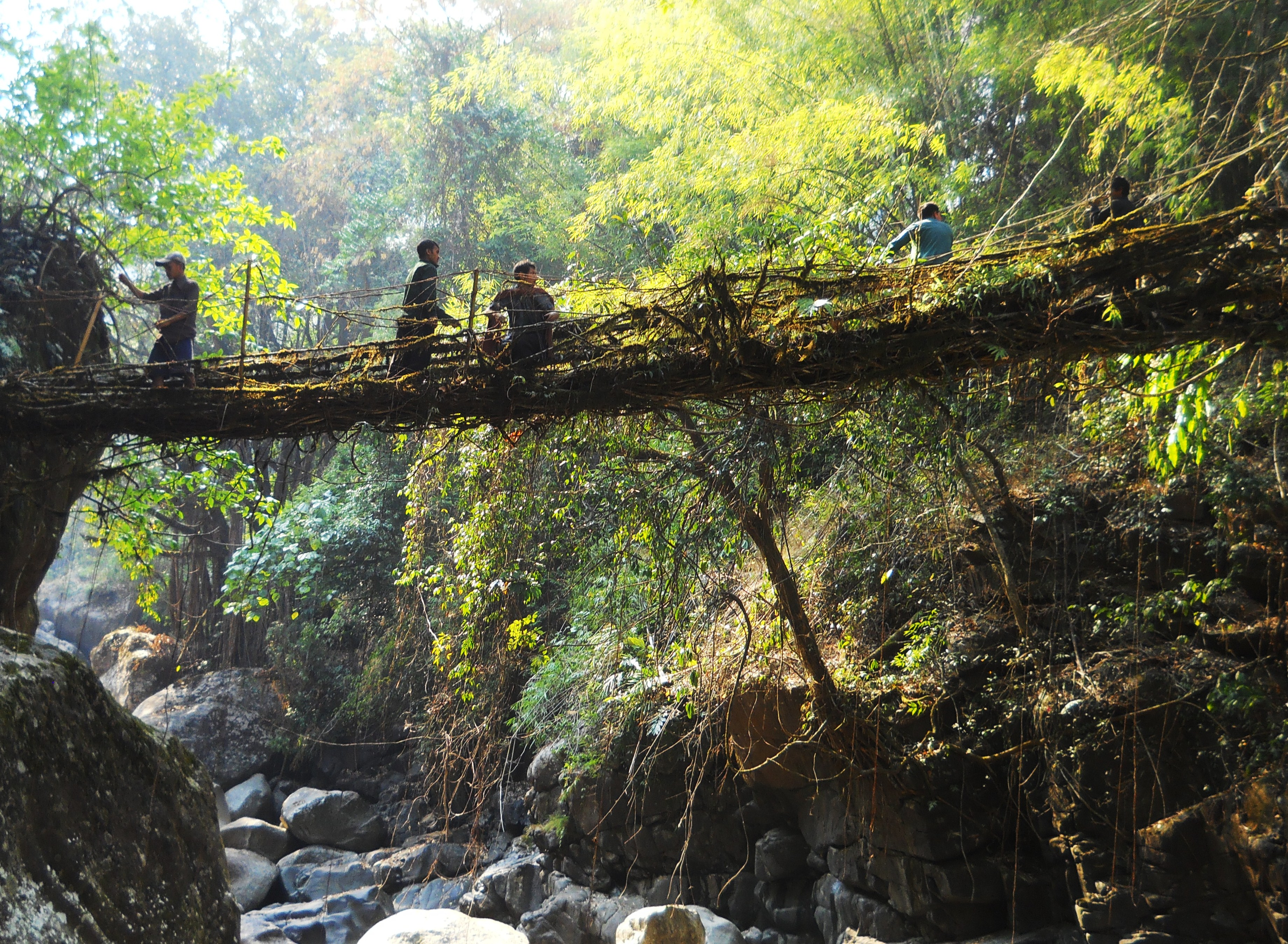 A living root bridge under construction near the village of Kongthong